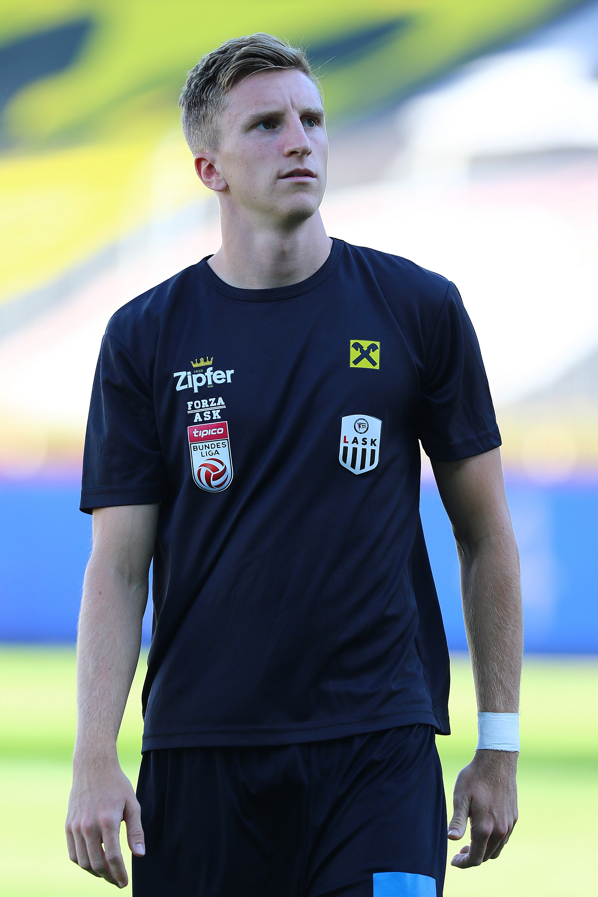 Championshipmatch of the Austrian Bundesliga 2018–19 FC Admira Wacker Mödling (red shirts) vs. LASK Linz (black-white shirts) 0-1 (0-0) at 2018-08-12 in the Bundesstadion Südstadt in Maria Enzersdorf. – The photo shows . Philipp Wiesinger